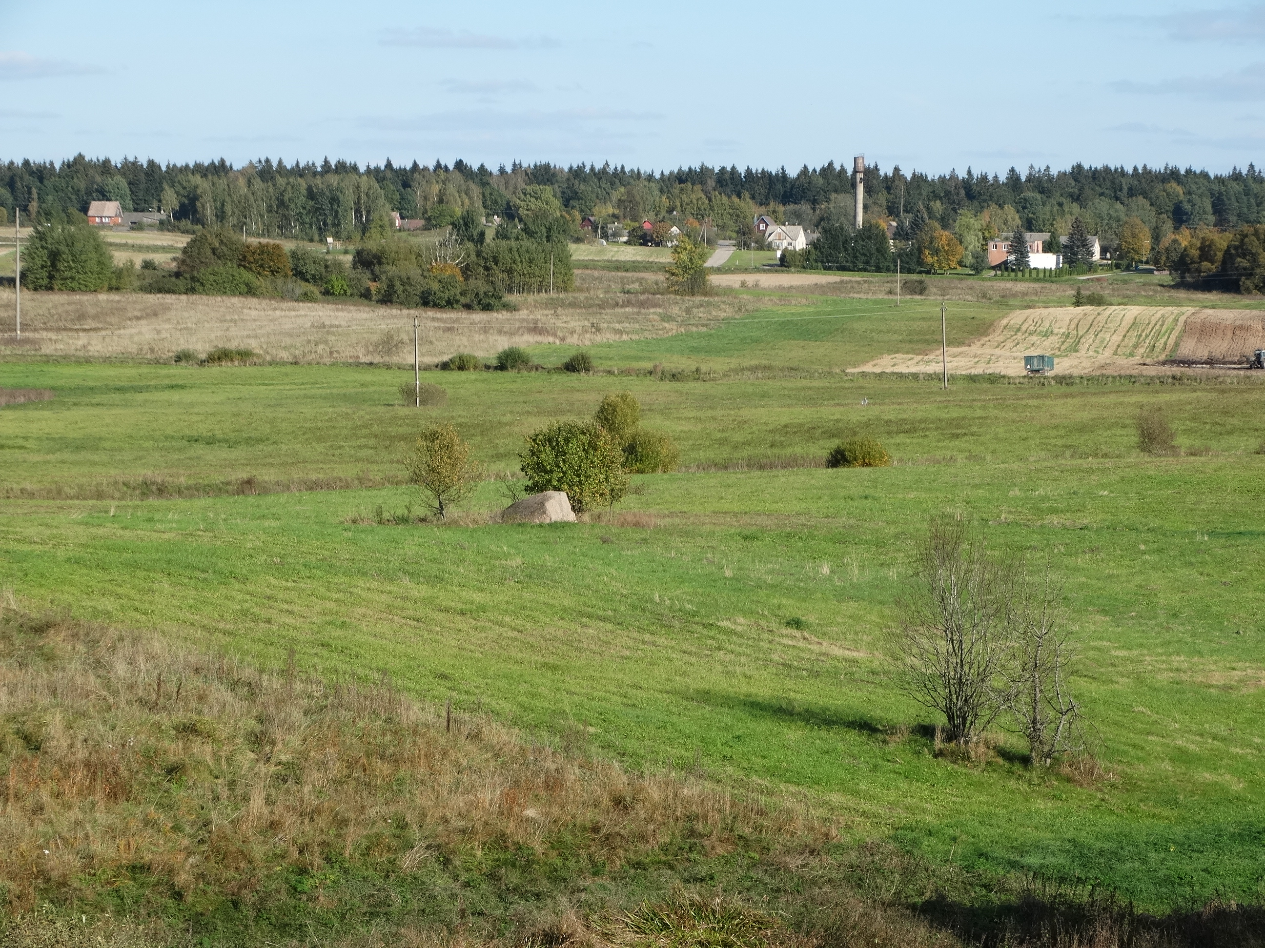 Varkalės I Stone in Varkalės, Kaišiadorys District, Lithuania